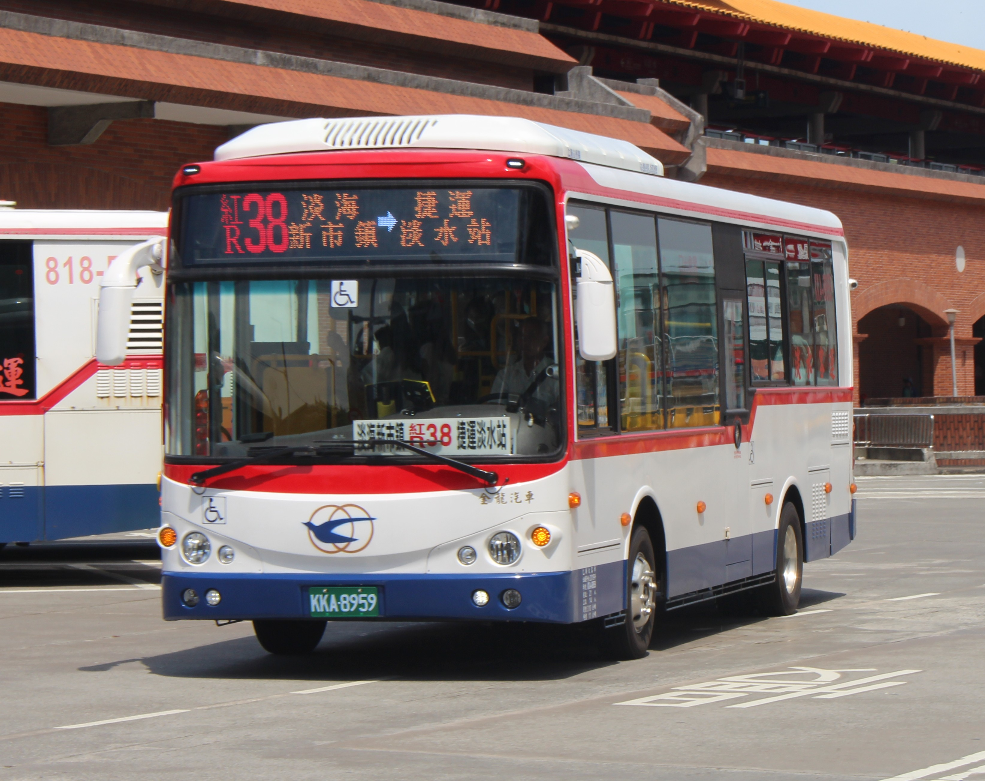 Tamshui Bus KINGLONG KL6850A3 KKA-8959 R38